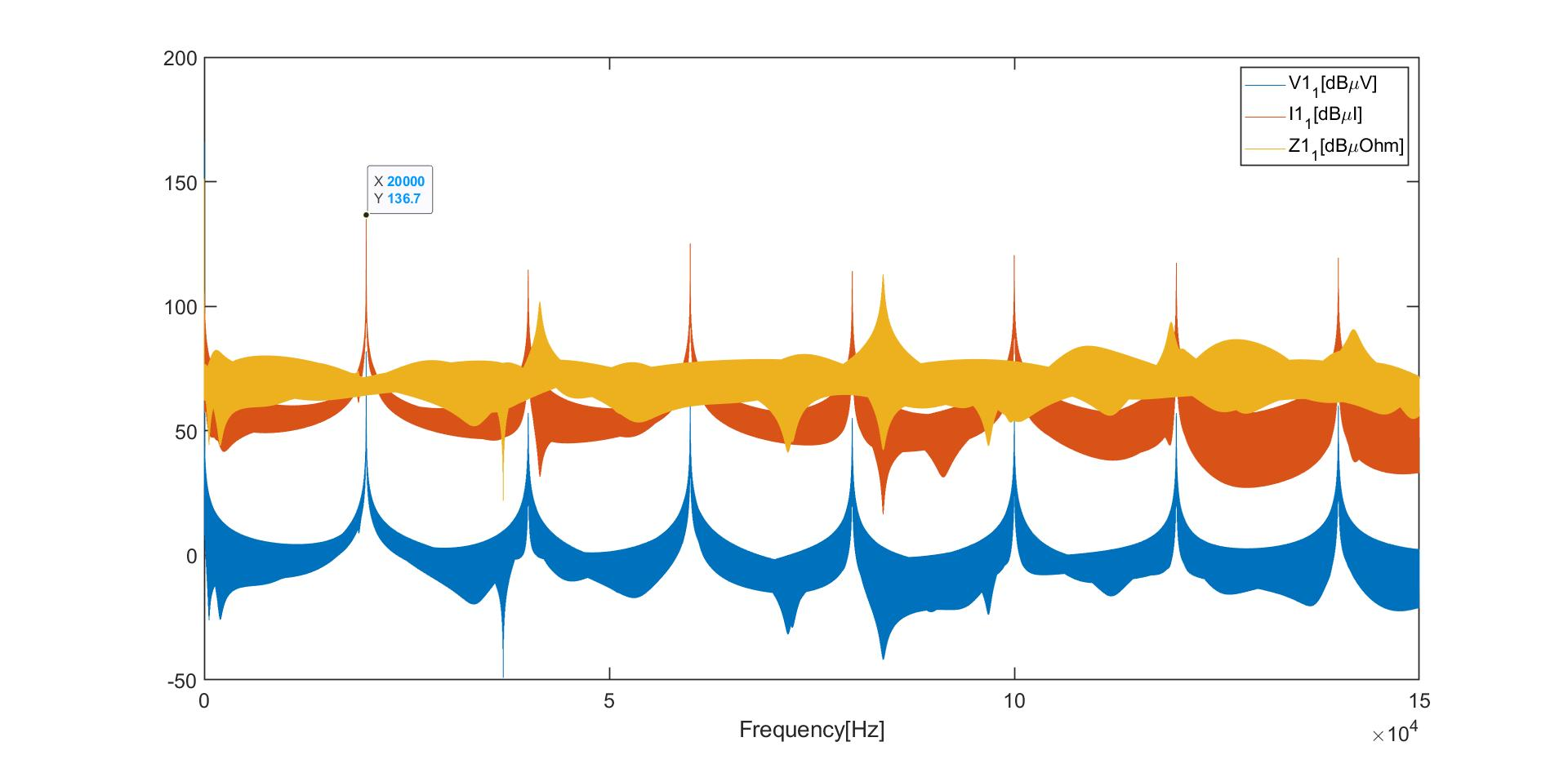 Supaharmonics from DC buck converter simulated in a MATLAB Simulink model.